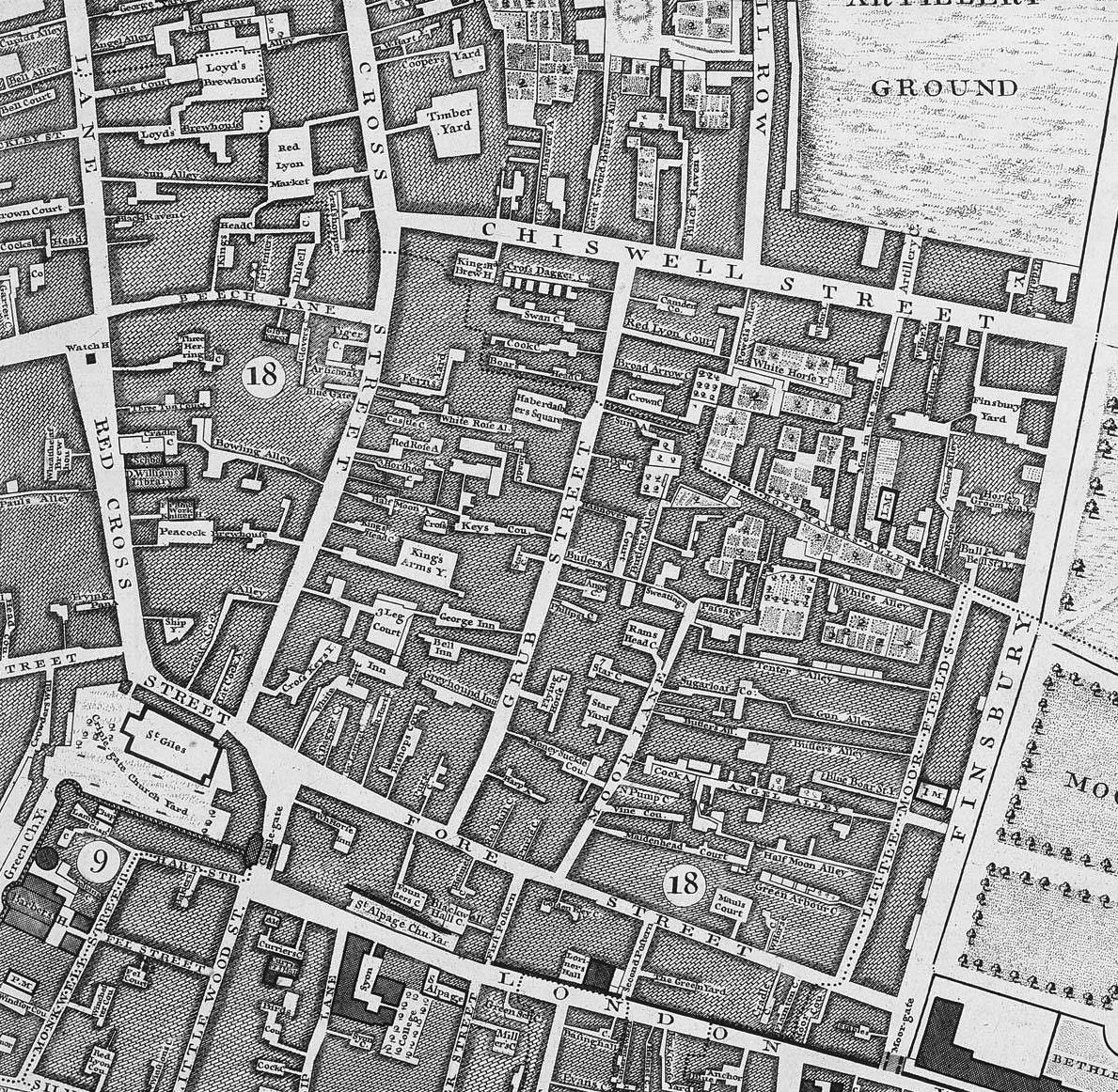 A cropped section of the map showing the location of Grub Street.